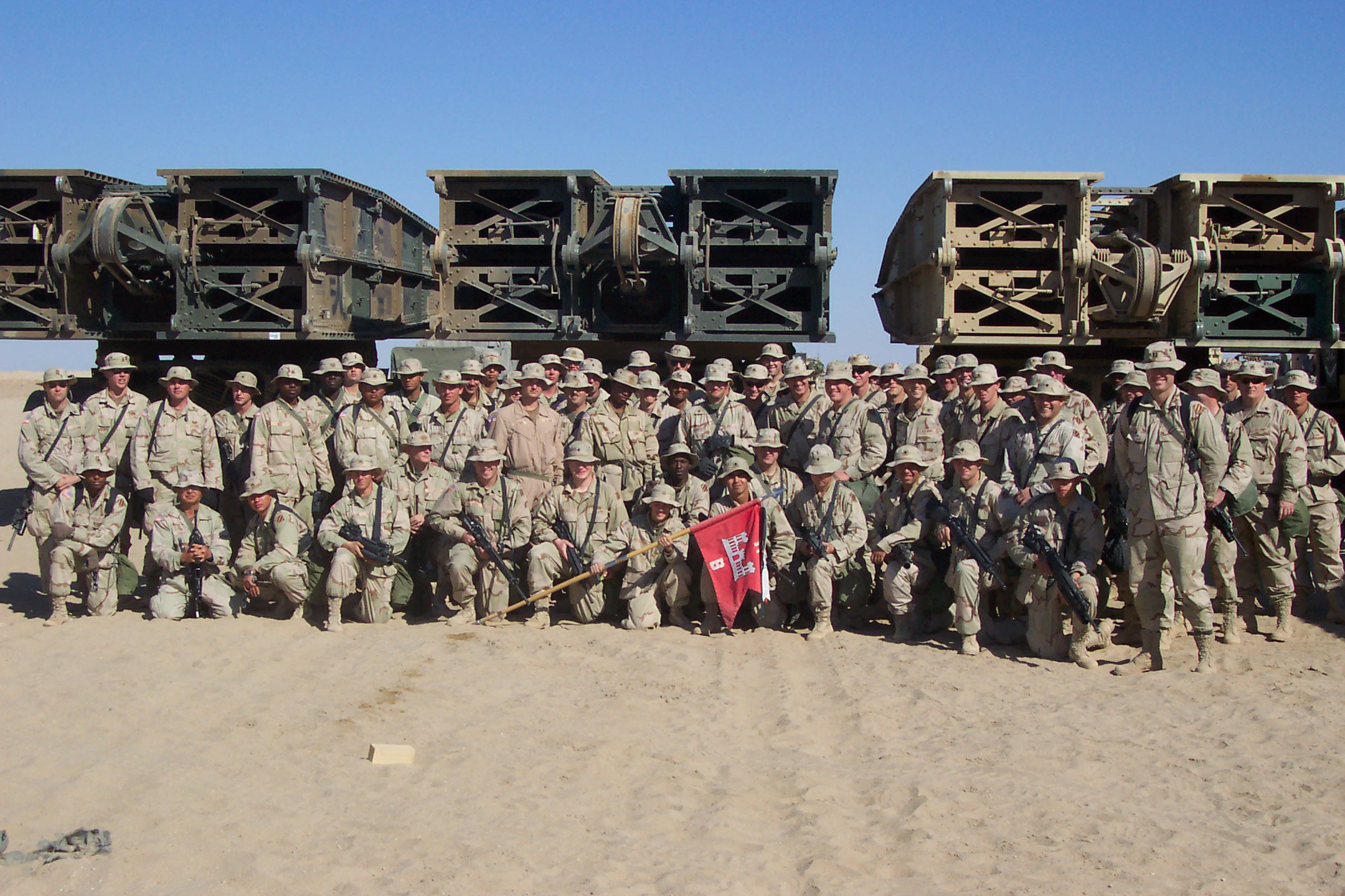 Sgt. 1st Class Paul R. Smith's Bravo Company, 11th Engineer Battalion, 3rd Infantry Division.